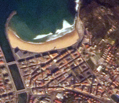 Gros, Donostia, Gipuzkoa, Basque Country